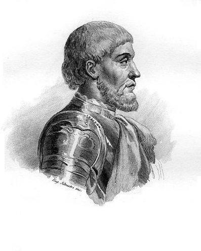 A portrait of Matteo II Visconti as it appears in Ritratti dei Visconti, Signori di Milano, engraving by Eugenio Silvestri incisore 1843?